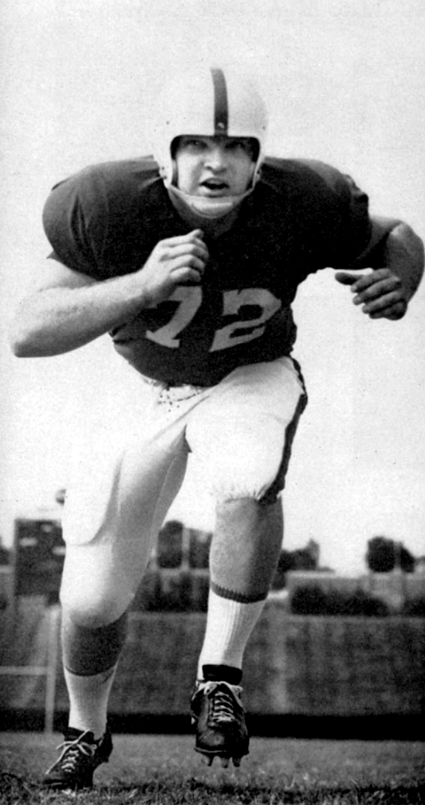 Photograph of Vel Heckman